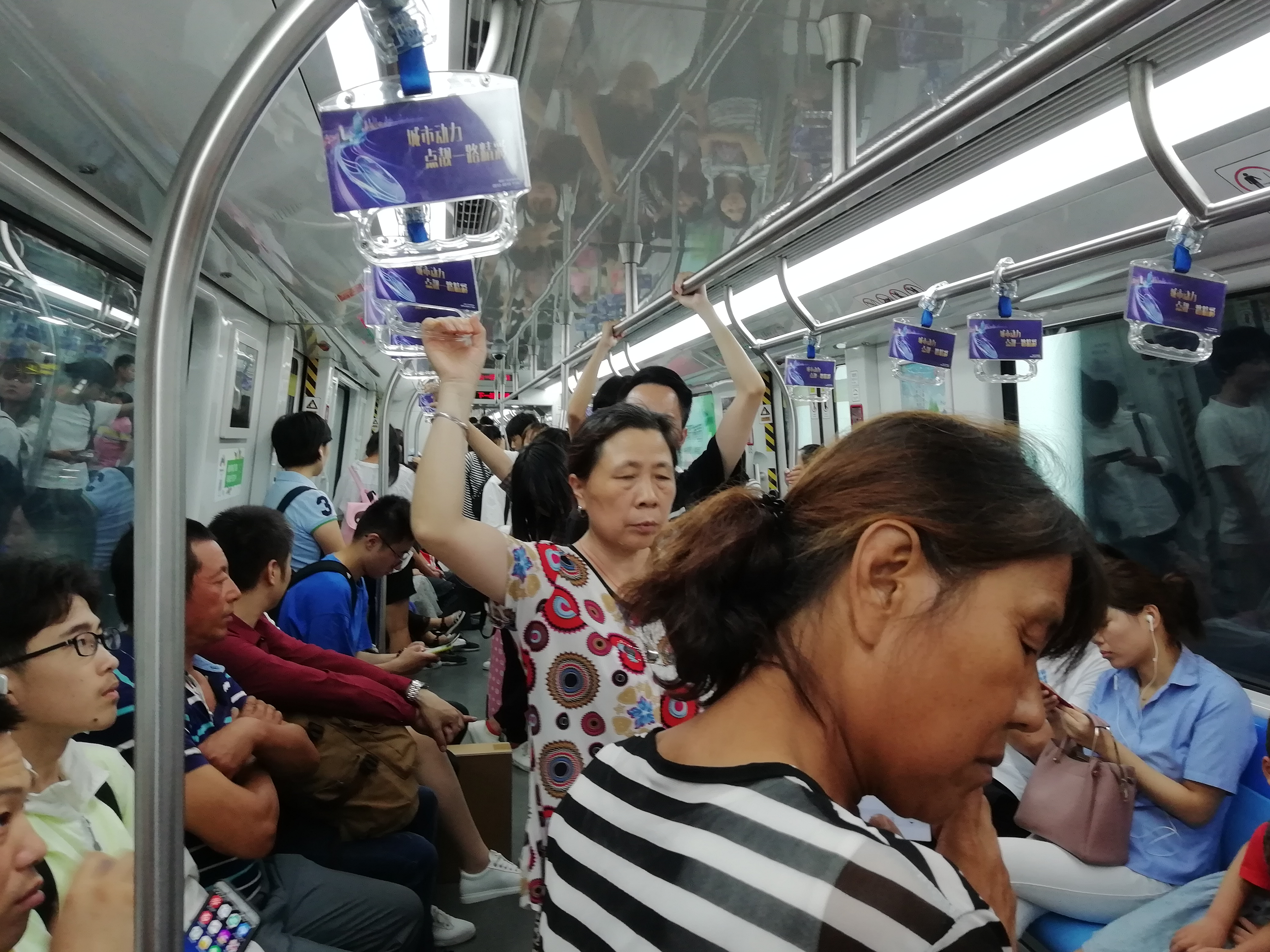 Interior of Line 4 Train (Suzhou Rail Transit) 中文（中国大陆）: 苏州轨道交通4号线列车内部